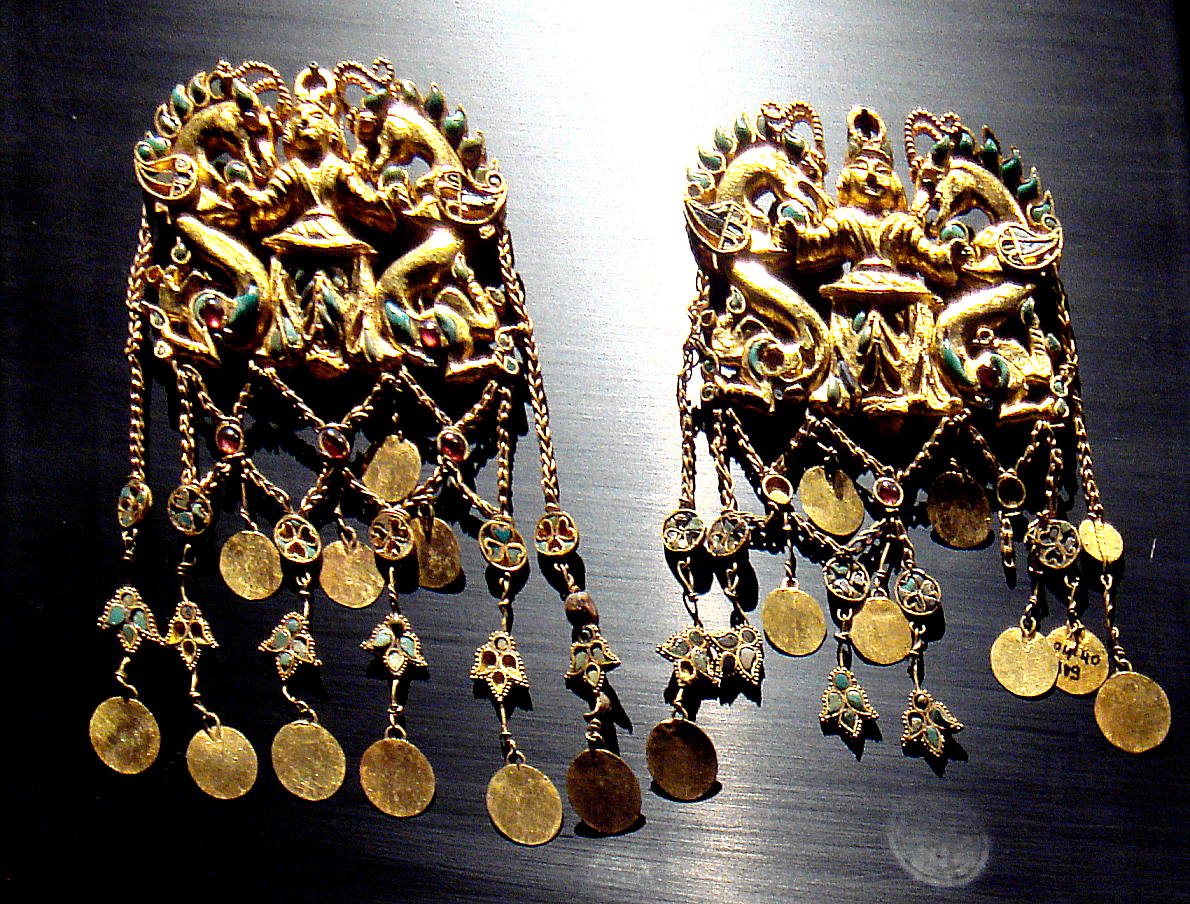 "Kings with dragons". Earrings from Tillia tepe, 1st century BCE. Musee Guimet. Personal photograph 2006.